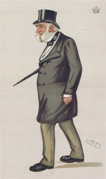 Caricature of Lord Digby. Caption read "Lord Leicester's nephew".